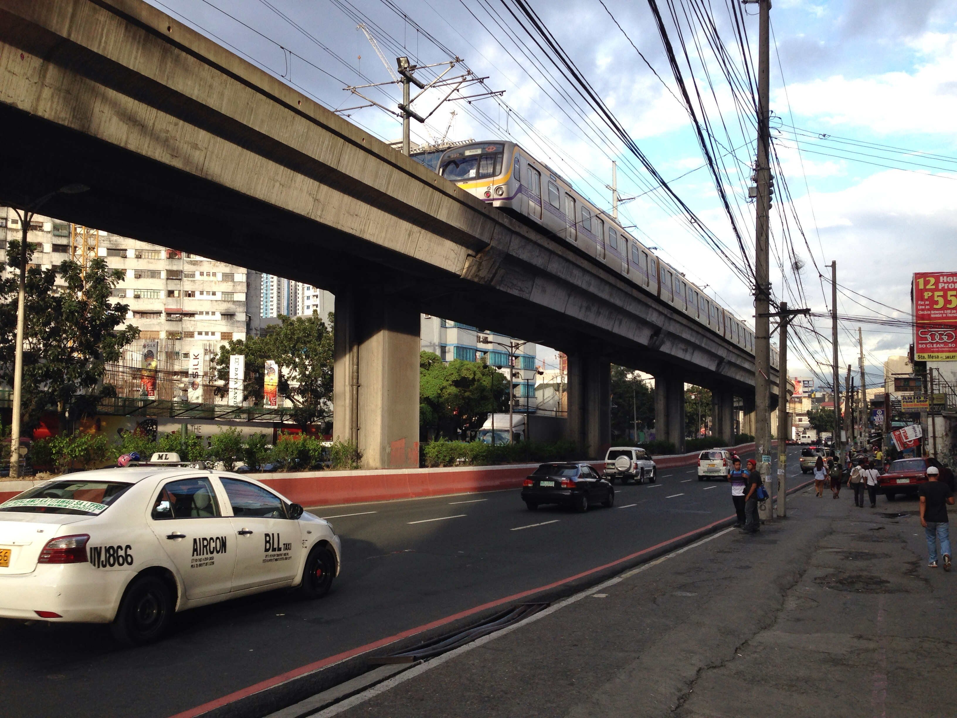 Manila MRT Line 2 Train above Magsaysay Boulevard, Santa Mesa, Manila